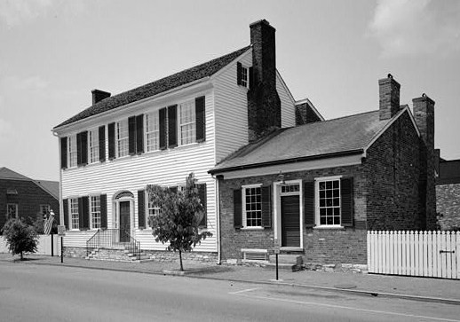 Dr. Ephraim McDowell House, 125 South Second Street, Danville (Boyle County, Kentucky)